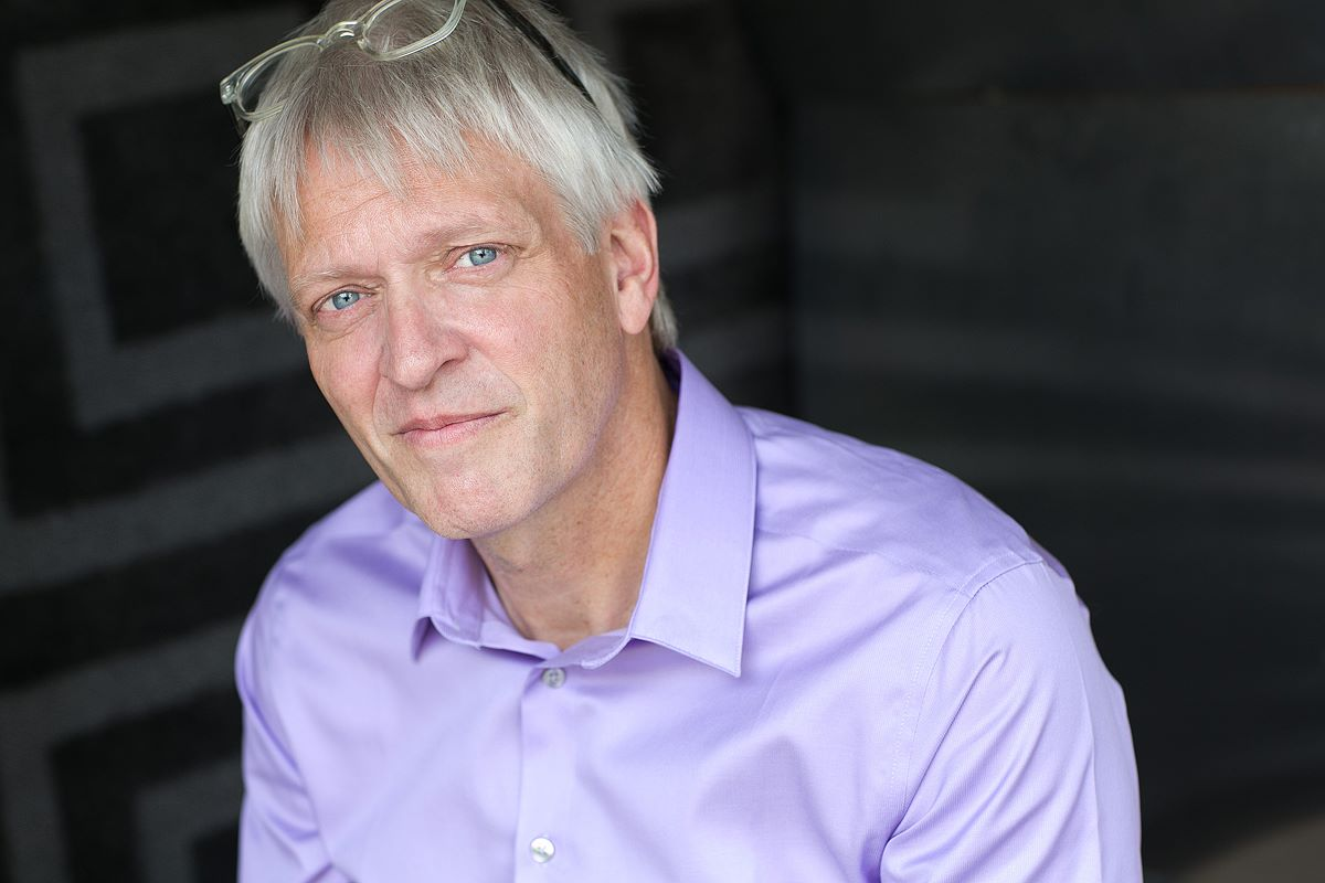 Doug McIntyre